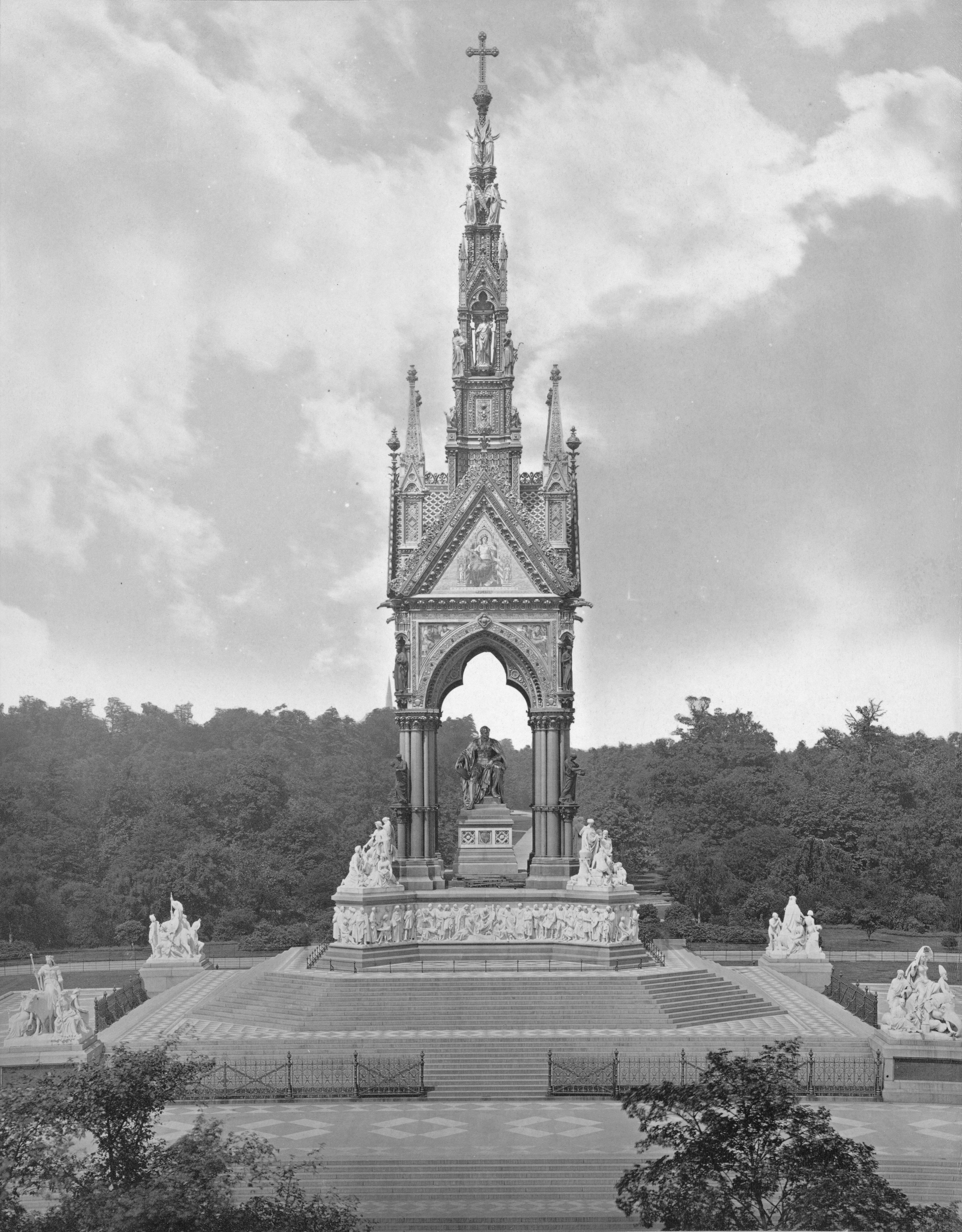 Collection: A. D. White Architectural Photographs, Cornell University Library Accession Number: 15/5/3090.00988 Title: Albert Memorial, Kensington Gardens Architect: Sir George Gilbert Scott (English, 1811-1878) Memorial date: 1872-1876 Photograph date: ca. 1876-ca. 1885 Location: Europe: United Kingdom; London Materials: albumen print Image: 11 x 8 5/8 in.; 27.94 x 21.9075 cm Provenance: Gift of Andrew Dickson White Persistent URI: There are no known U.S. copyright restrictions on this image. The digital file is owned by the Cornell University Library which is making it freely available with the request that, when possible, the Library be credited as its source.